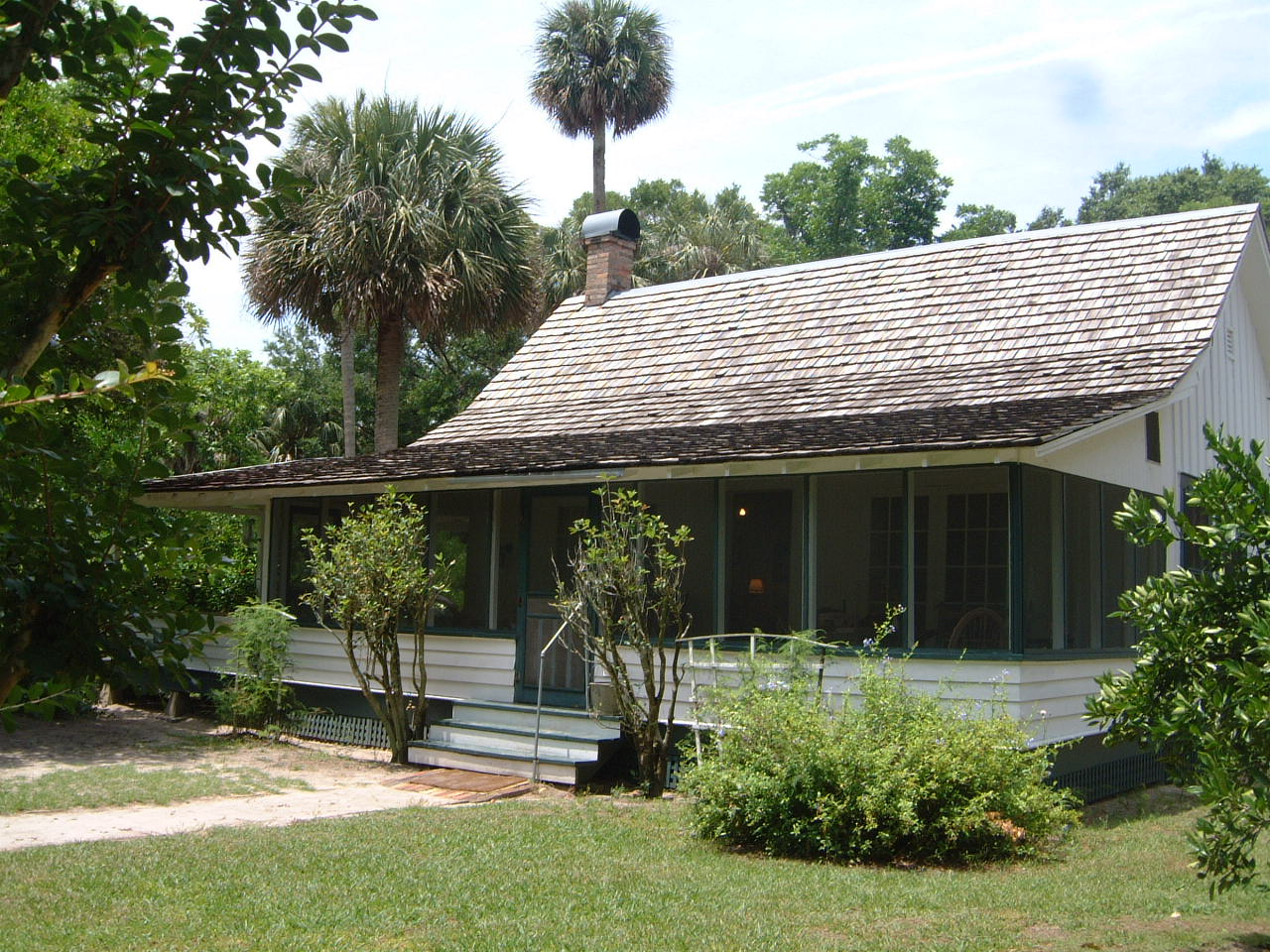 Cross Creek State Historical Site - Marjorie Kinnan Rawlings' home, Cross Creek